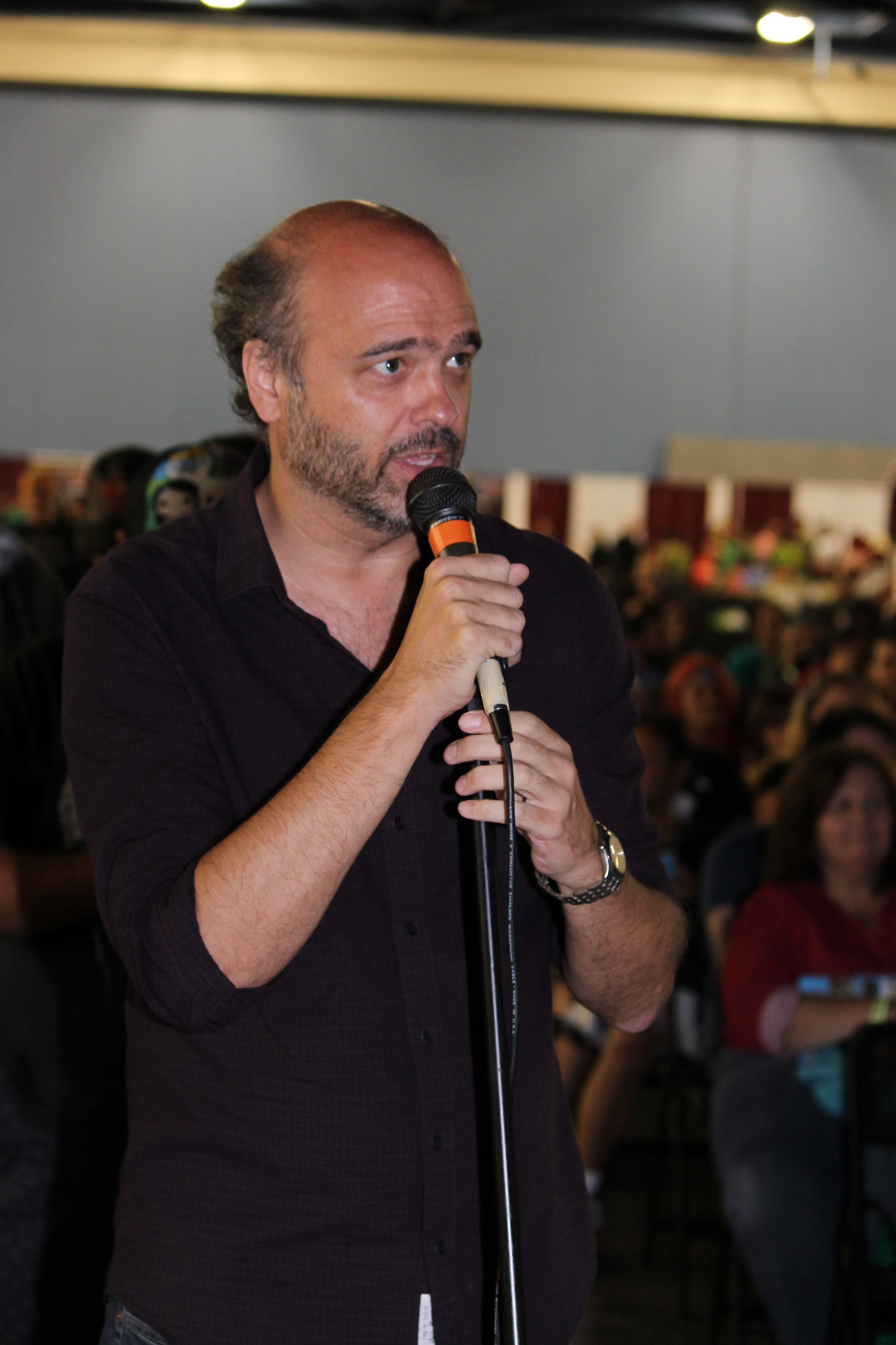 Scott Adsit at Florida Supercon, 2014